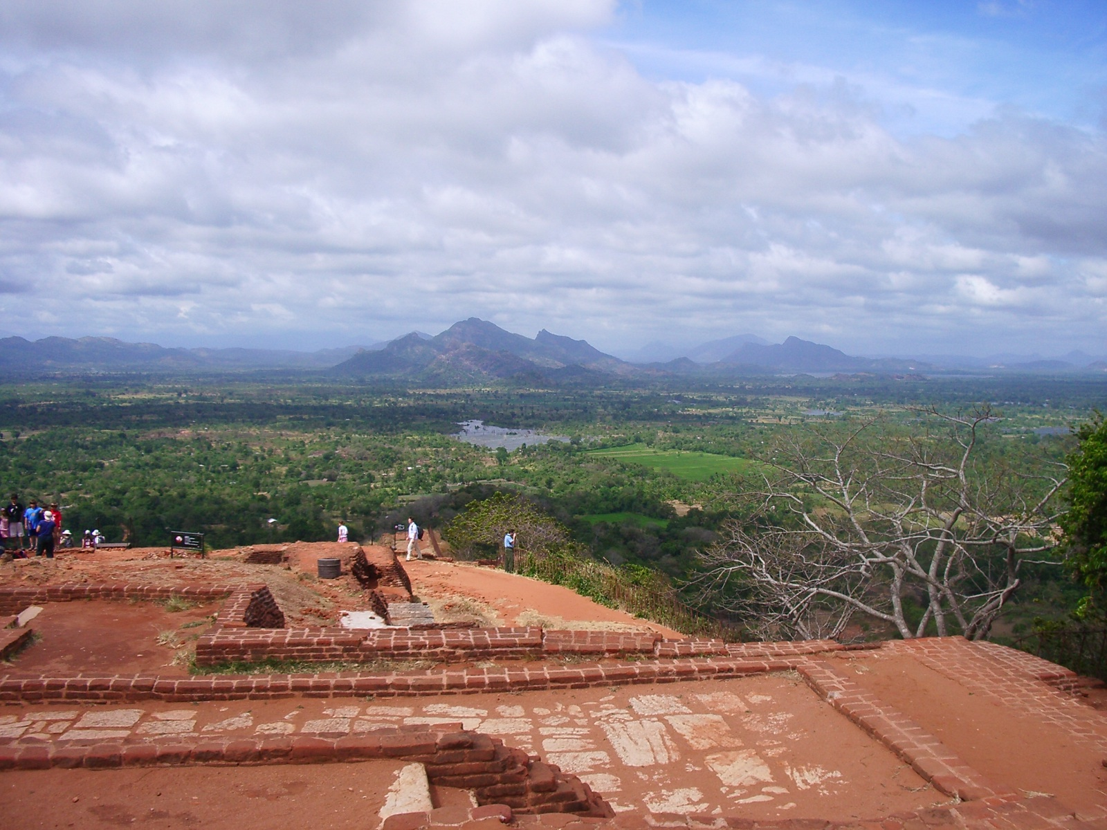 Vista des de la fortalesa de Sigiriya